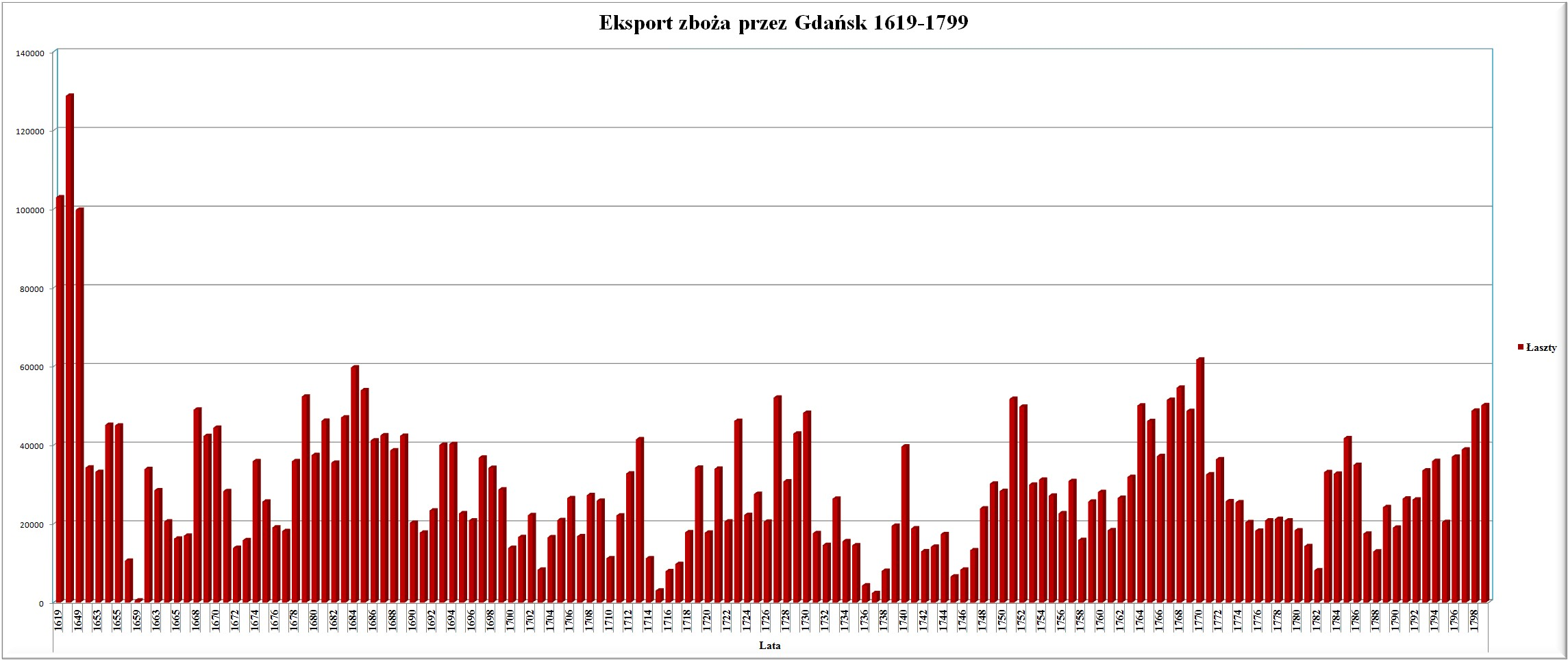 Eksport zboża przez Gdańsk 1619-1799